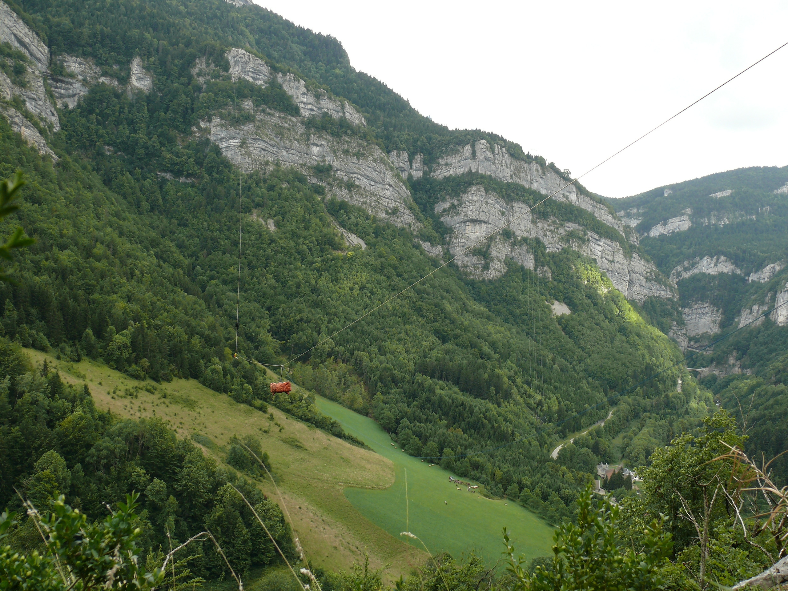 Overview of the TPR line.